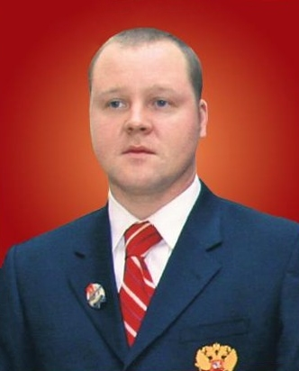 Yevgeny Sadovyi